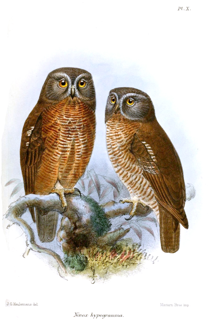 Ninox hypogramma = Ninox squamipila hypogramma, Moluccan Hawk-owl ssp., also known as the Halmahera Hawk-owl